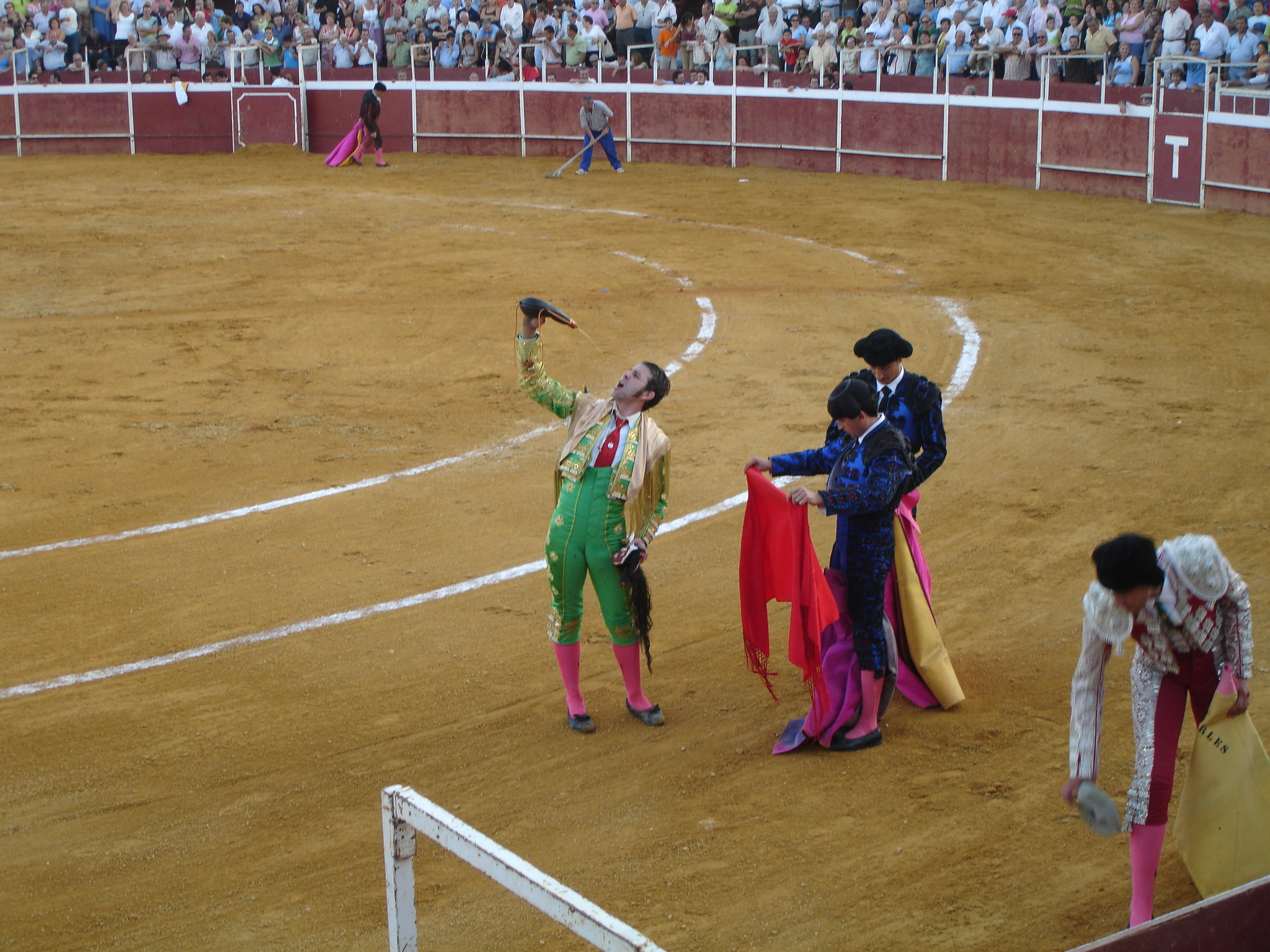 Juan Jose Padilla, bullfighting during Feria at Arcos de la Frontera. Andalusia (Spain)